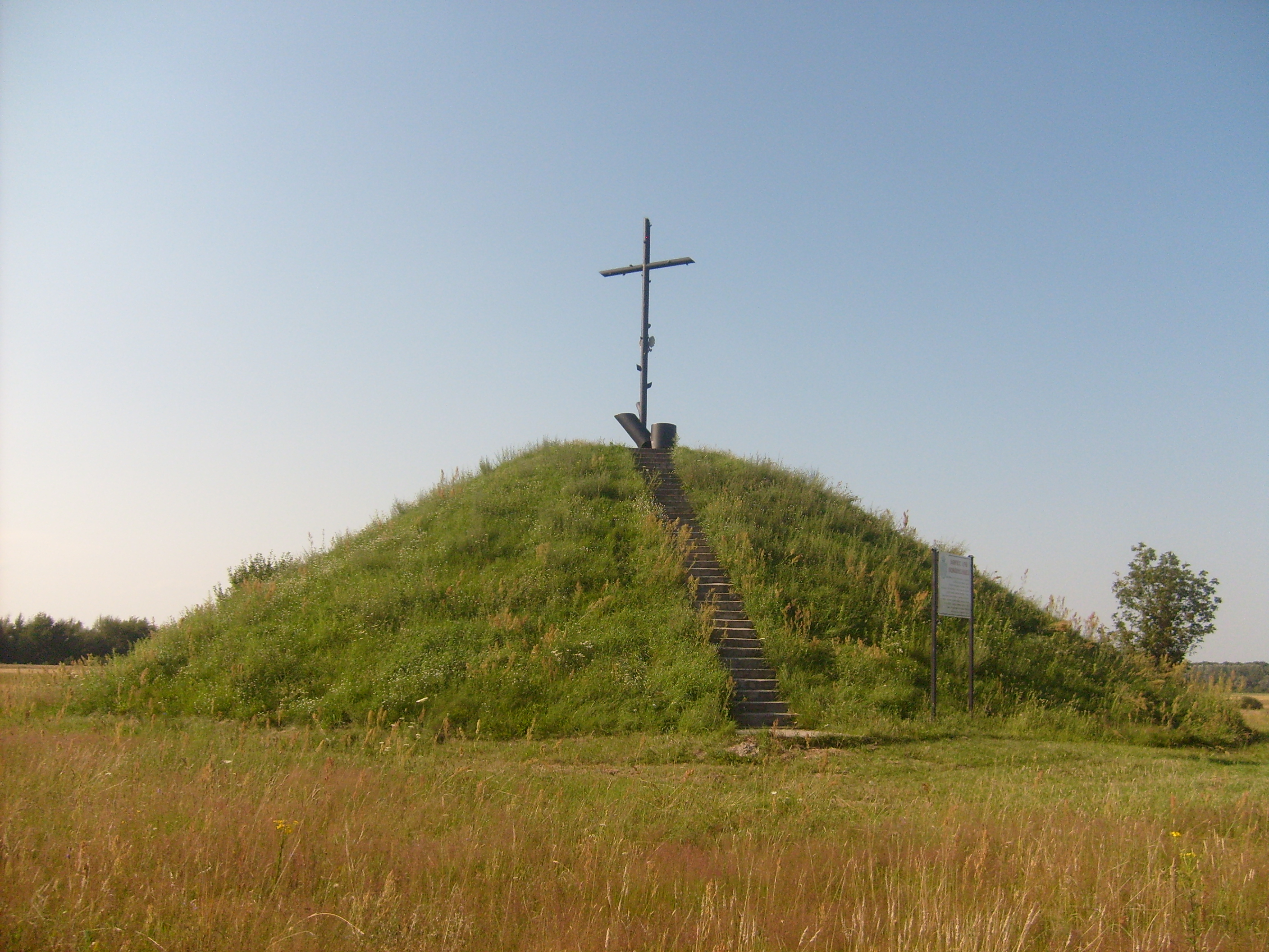 Mound of the Horodlo Union